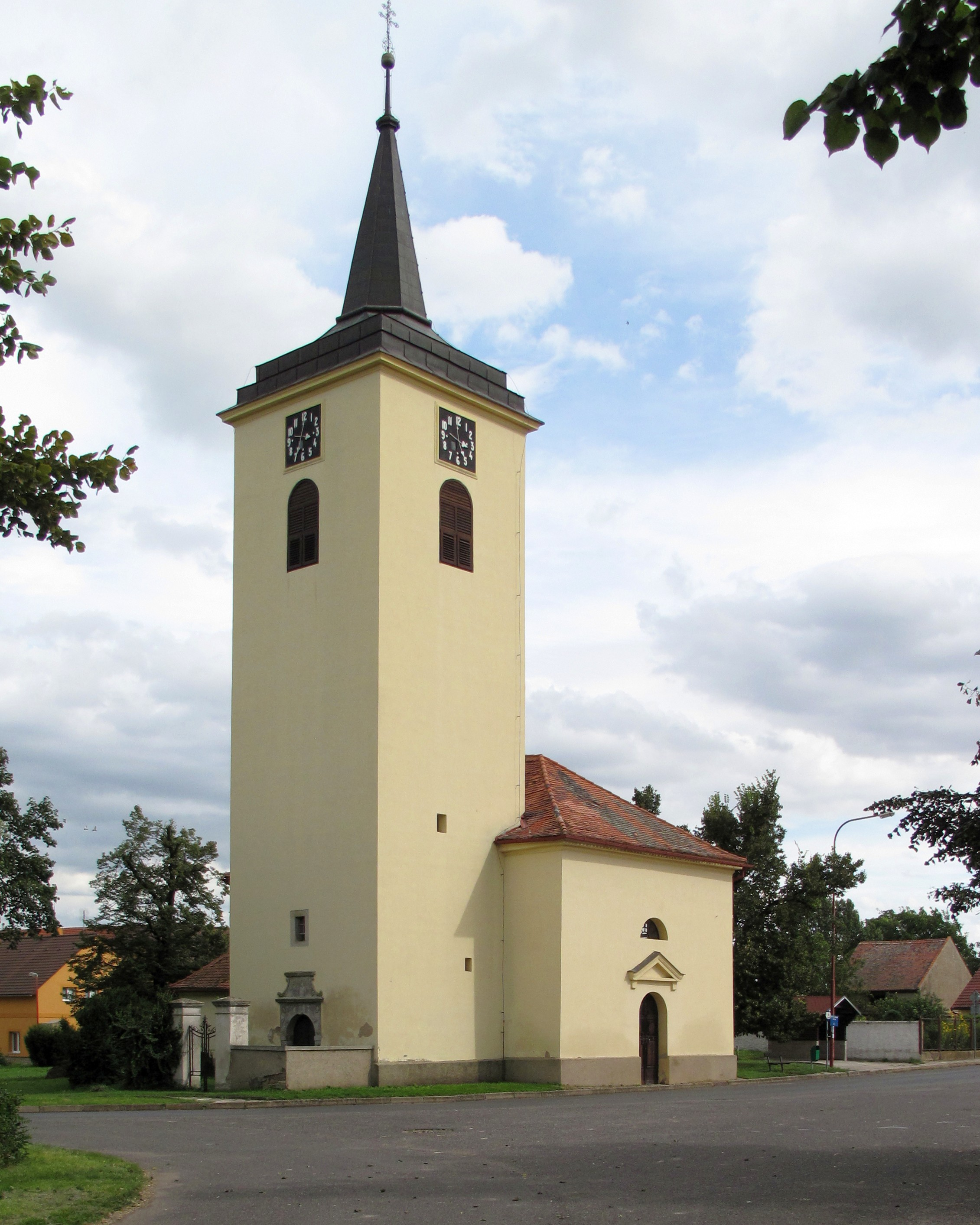 The Church of Saint John Nepomuk in Slatina village, Litoměřice District, Czech Republic.